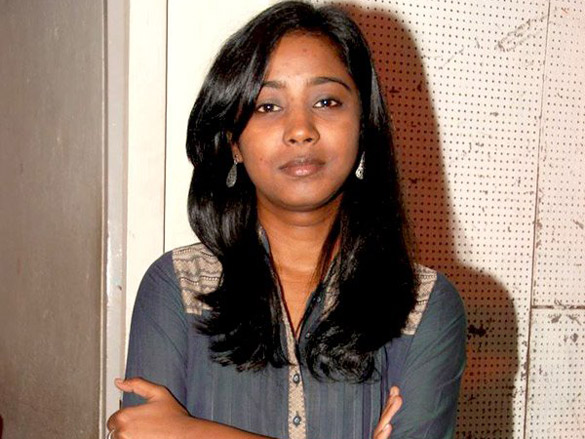 Shilpa Rao From The Neetu Chandra graces CPAA Salim Sulaiman concert